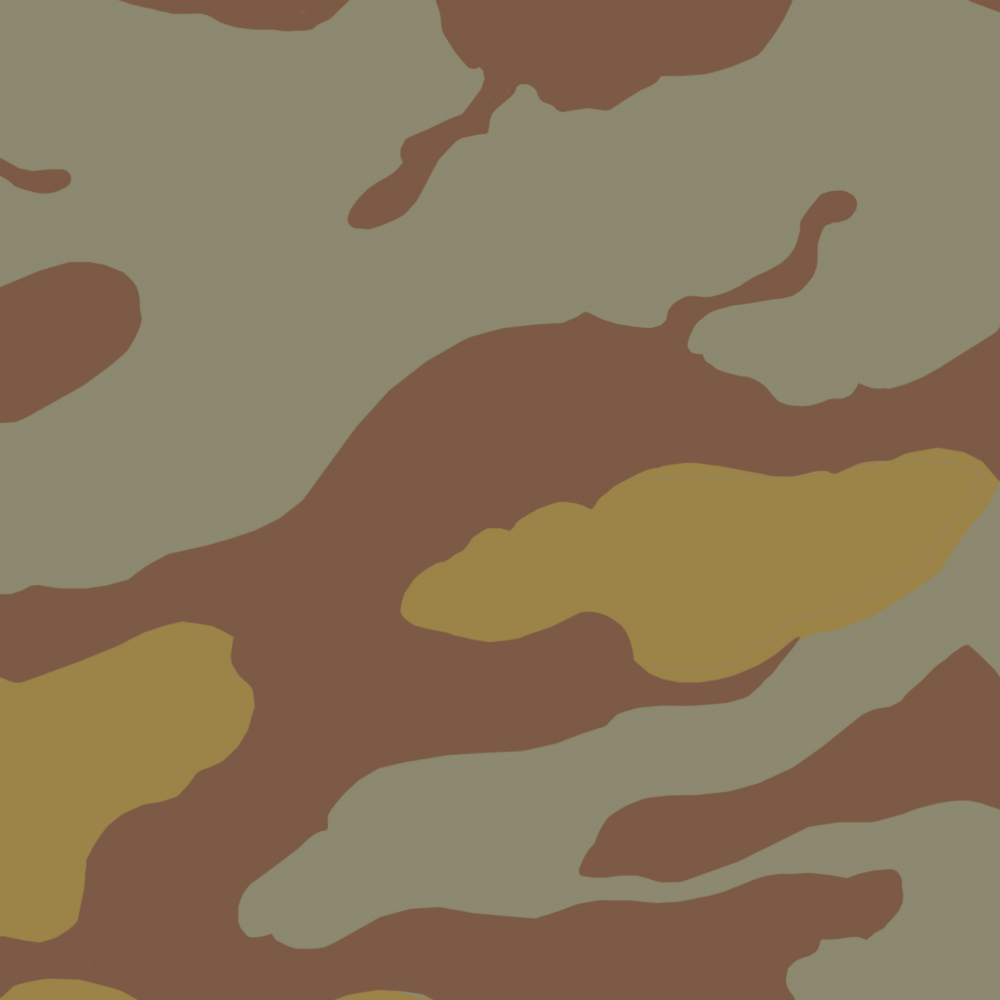 The wartime version of the M1929 Telo Mimetico - "mimick cloth" as used by the Italian and German troops during WWII. The Teleo Mimetico was the first printed fabric used for general issue to troops (issued as shelter tents), and the pattern lasted with some variations until the 1990s. Pattern and colour redrawn from actual specimen.